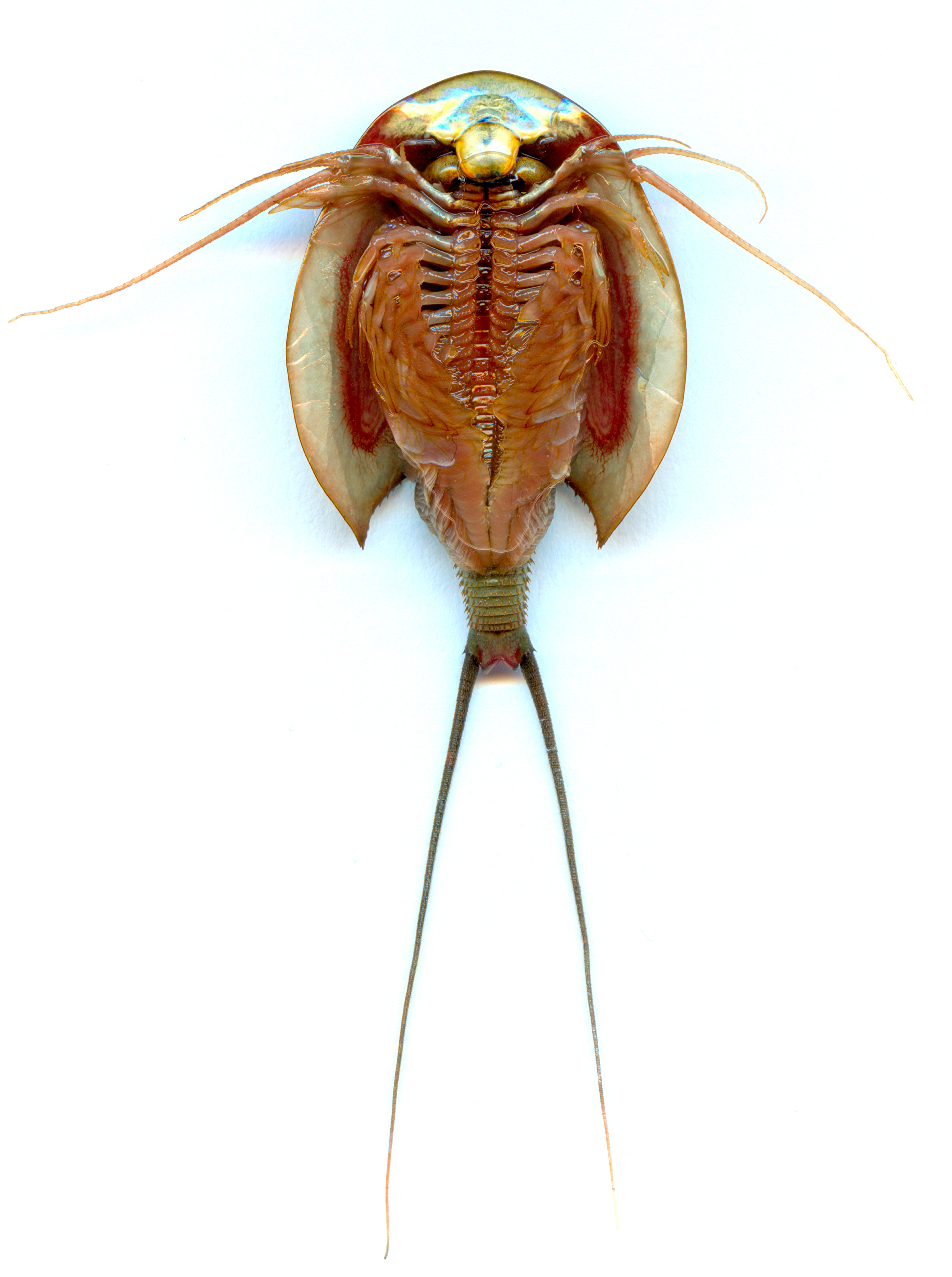 Ventral view (scan) of an adulte Triops longicaudatus (naturally died, the specimen was an offspring in an aquarium)